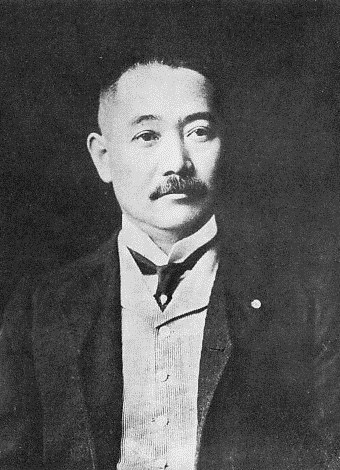 Kojiro Matsukata